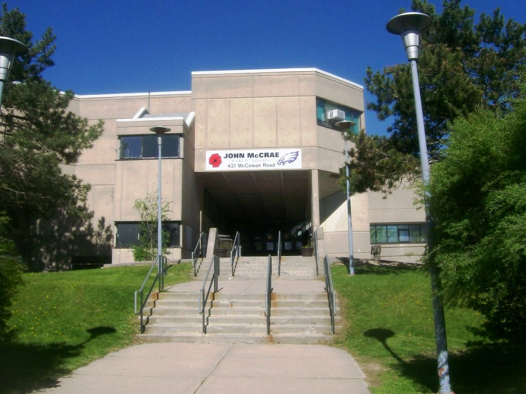 John McCrae Public School (formerly the Sr. PS model) on McCowan Rd. Toronto District.